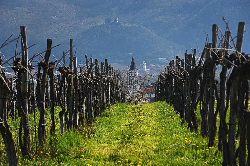 Slap village in Vipavska brda is well known by its wines.